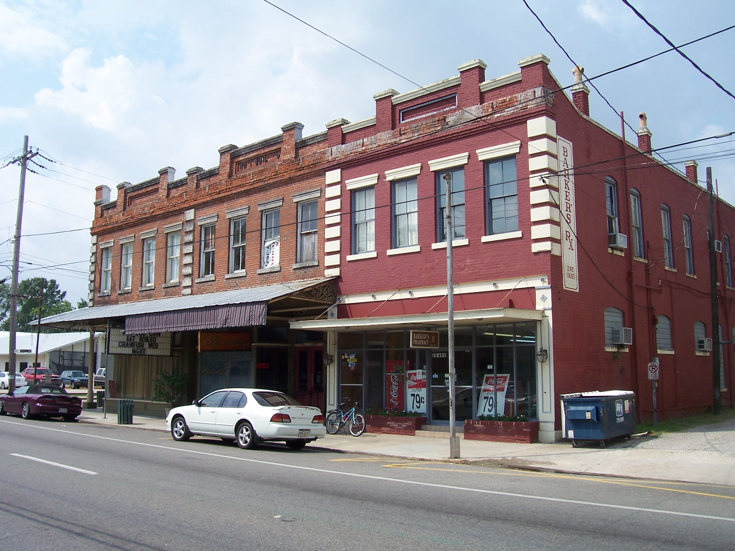 Brick buildings, Old Square, Plaquemine, Louisiana